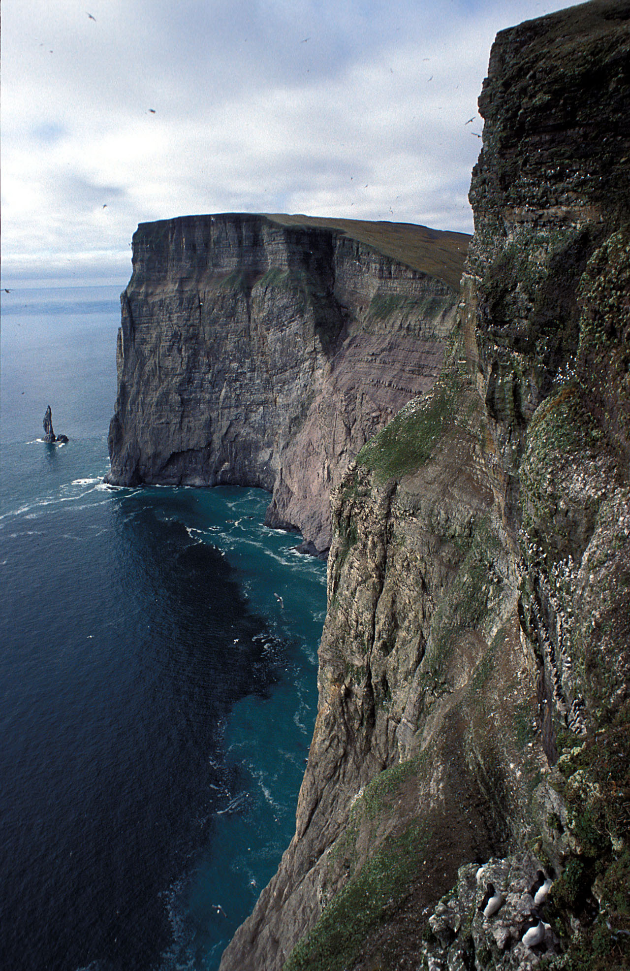 Colony of Brünnich's Guillemot (Uria lomvia) at bird cliff of Stappen, southern Bjørnøya (Bear Island) in the Barents Sea. The island is part of Svalbard, Norway.